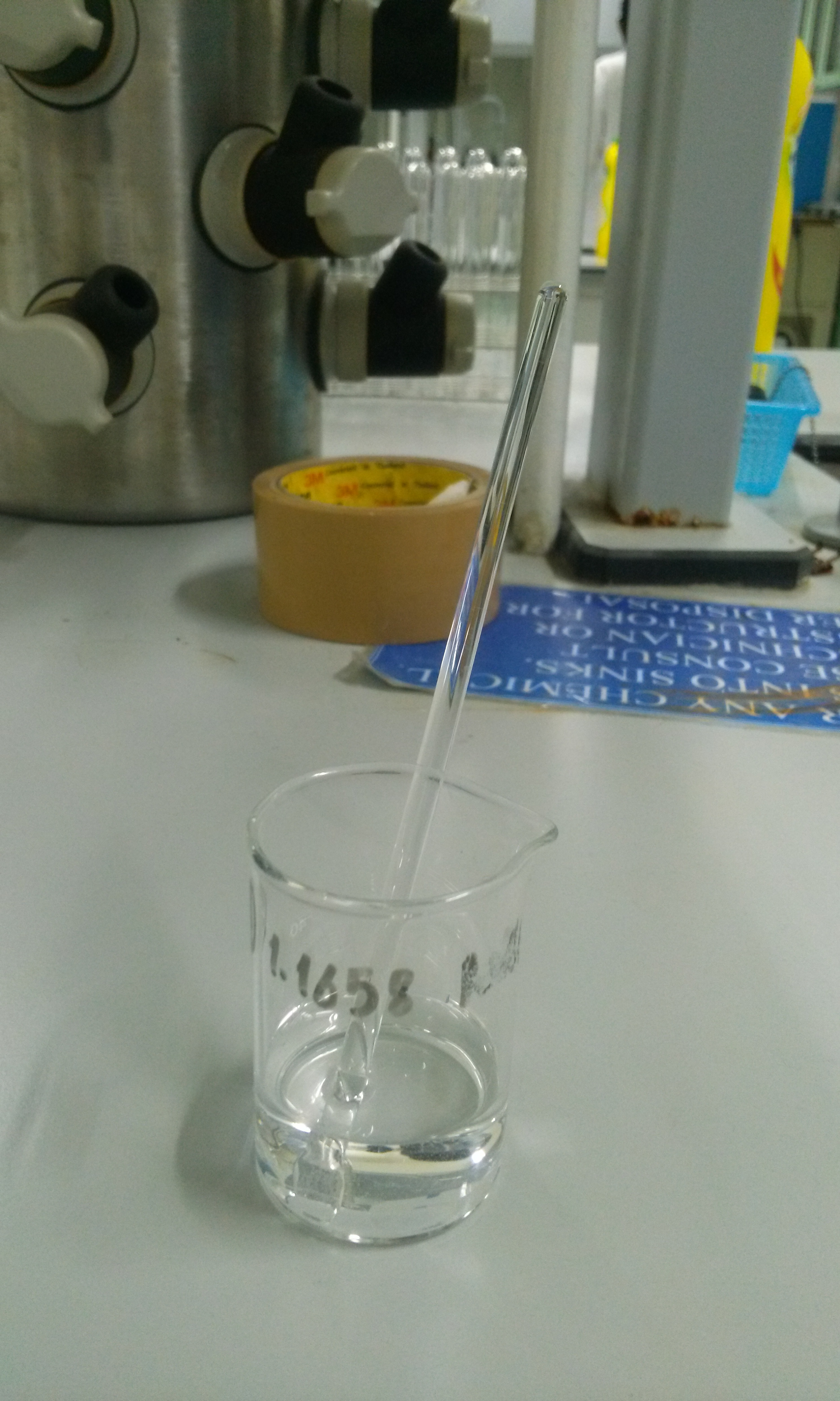 This is the example use of glass rod that is used to mix the substance with some liquid